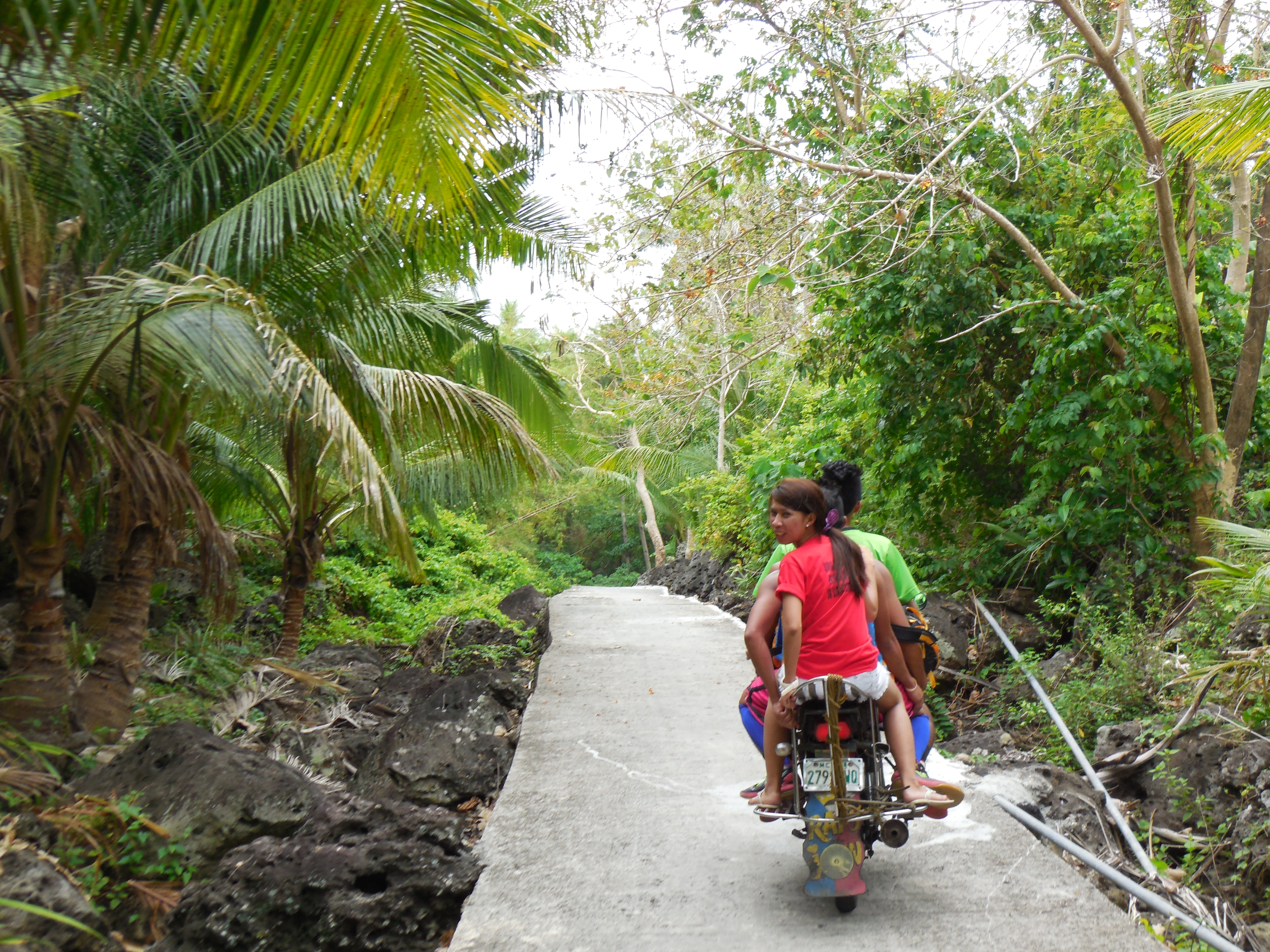 Passenger motorcycles are the main mode of transportation in Banton. This motorcycles plies the Banton Circumferential Road going to Barangay Banice.